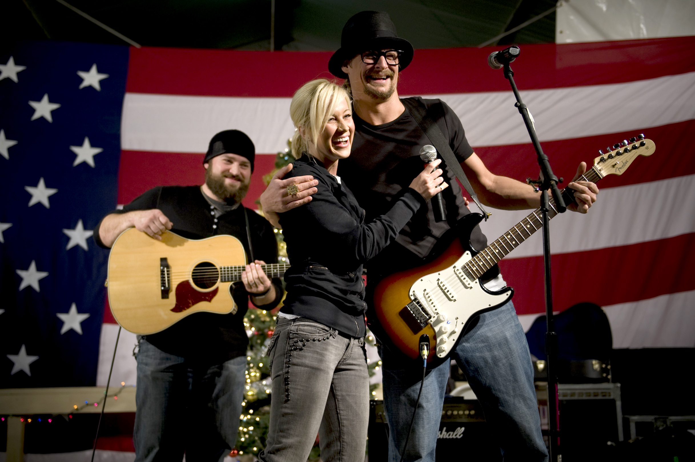 Grammy award-winning musician Kid Rock, American Idol contestant and country musician Kellie Pickler, and musician Zack Brown entertain troops stationed at Kandahar, Afghanistan, Dec. 17, during the 2008 USO Holiday Tour.